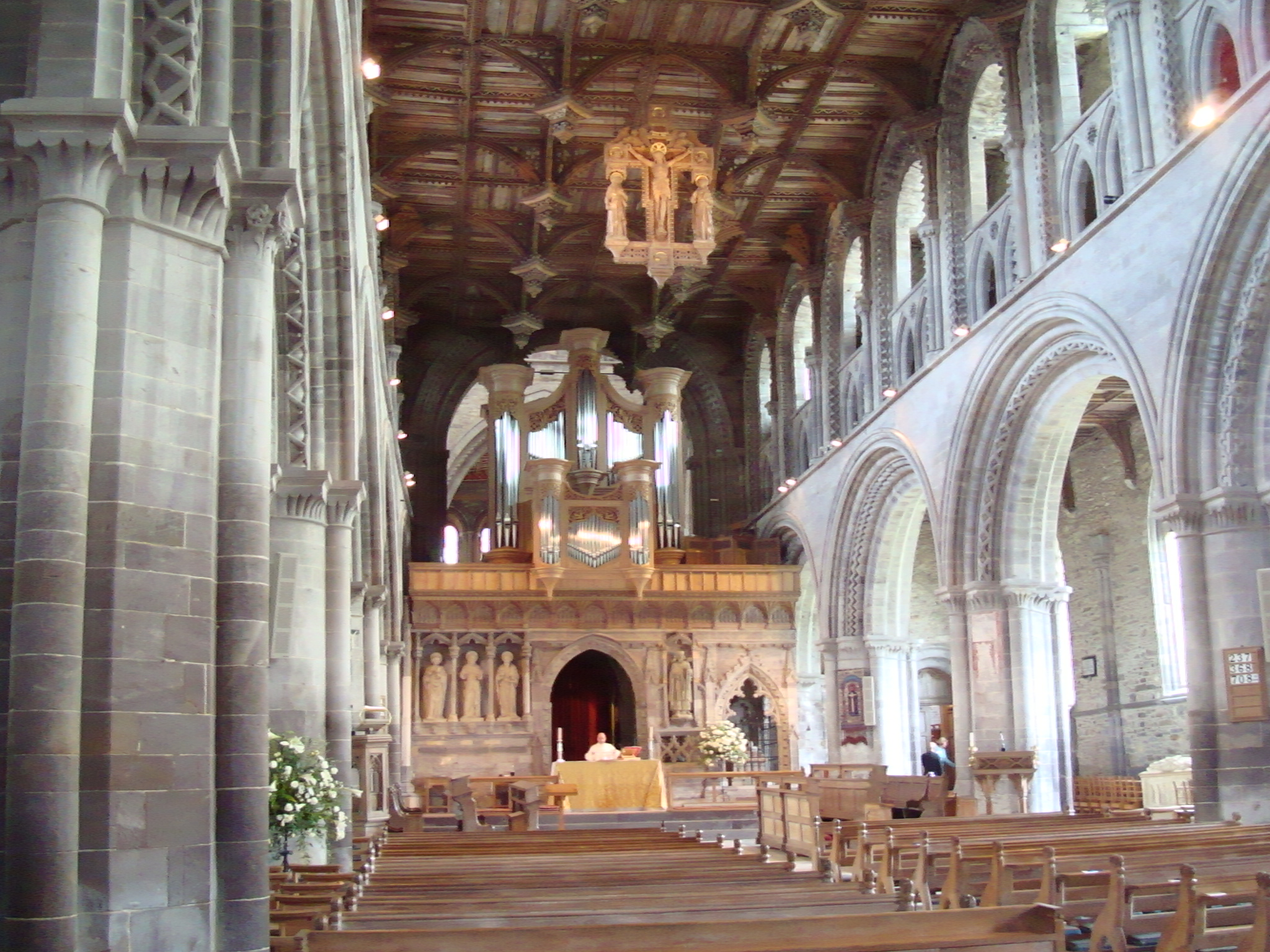 Photograph of St Davids Cathedral, Wales - interior - Nave